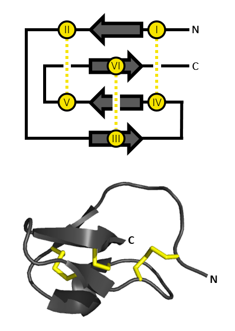 Top: generalized knottin structure. The beta strands (arrows) and disulfide bonds (yellow lines connecting numbered cysteines) form the core of the knottin motif. Knottins are differentiated from GFCKs by the connectivity of their cysteines. Bottom: The general schematic is readily apparent in this pdb structure of EETI (PDB: 2IT7).